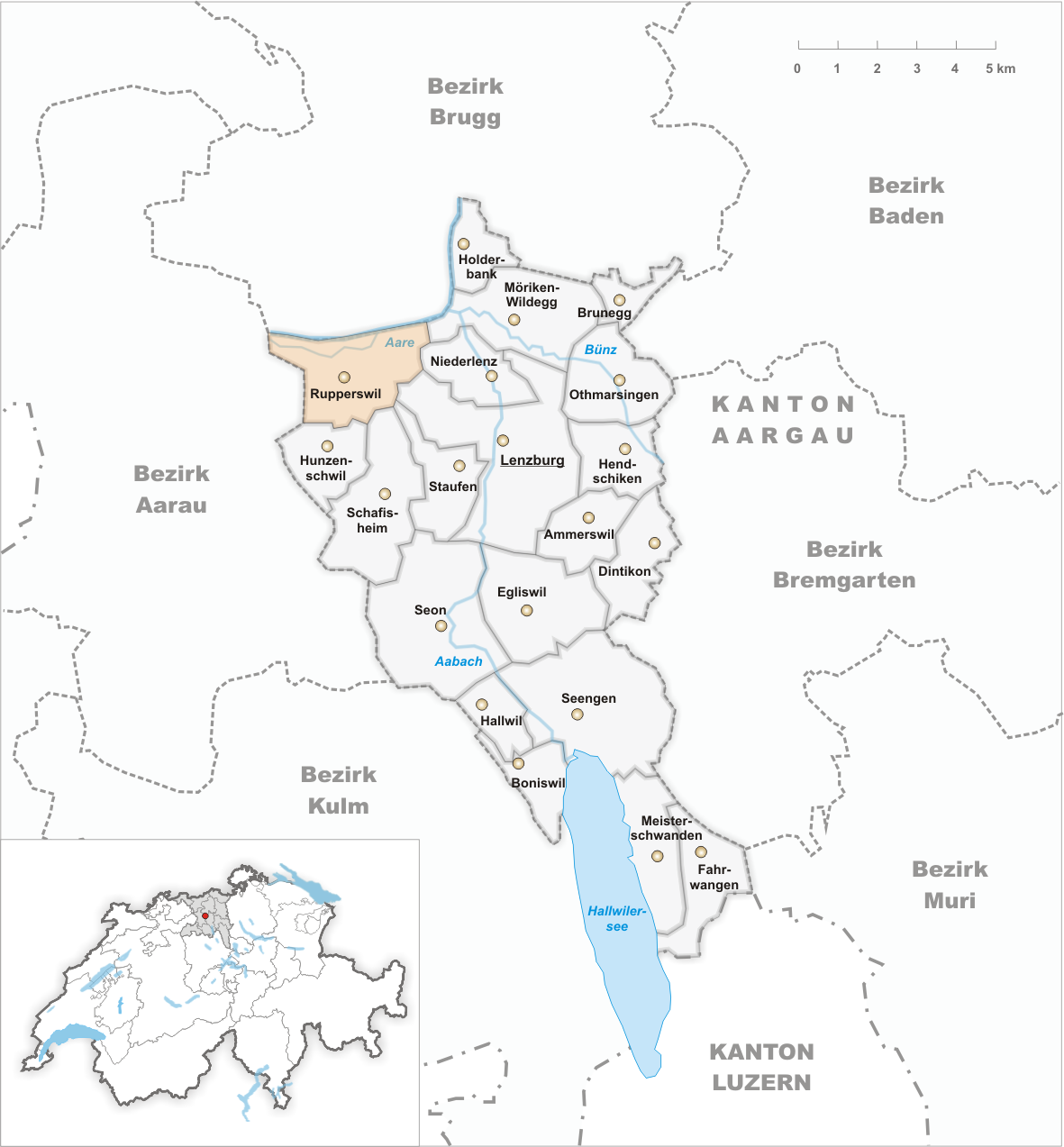 Municipality Rupperswil